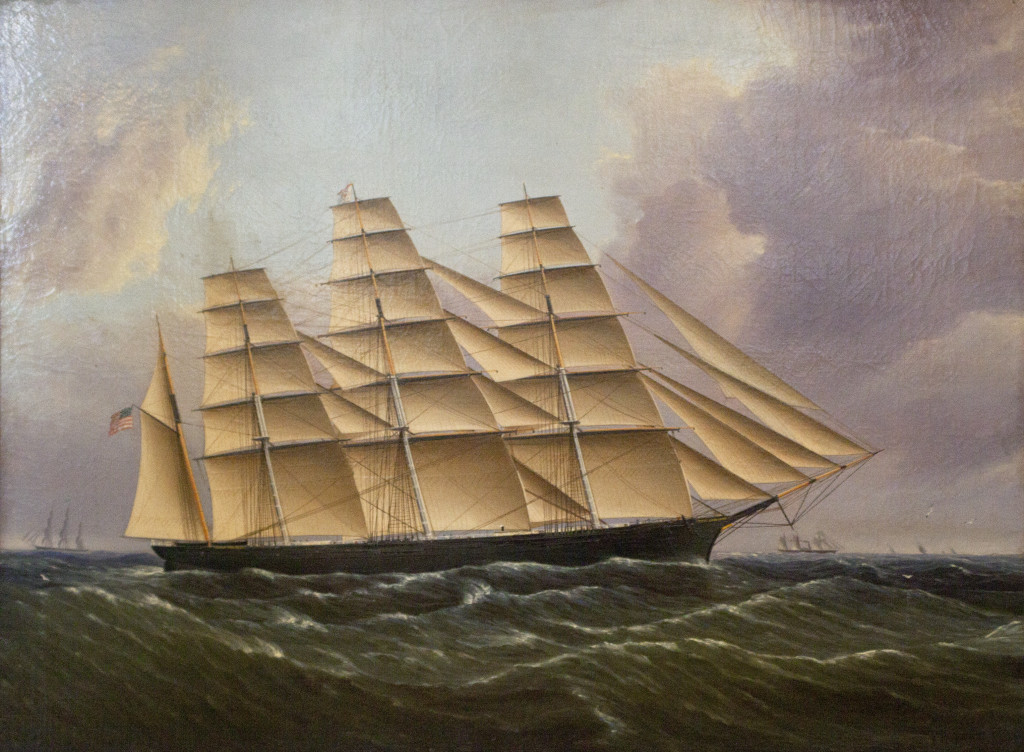 When it was built in 1853, the Great Republic was the largest clipper ship in the world.